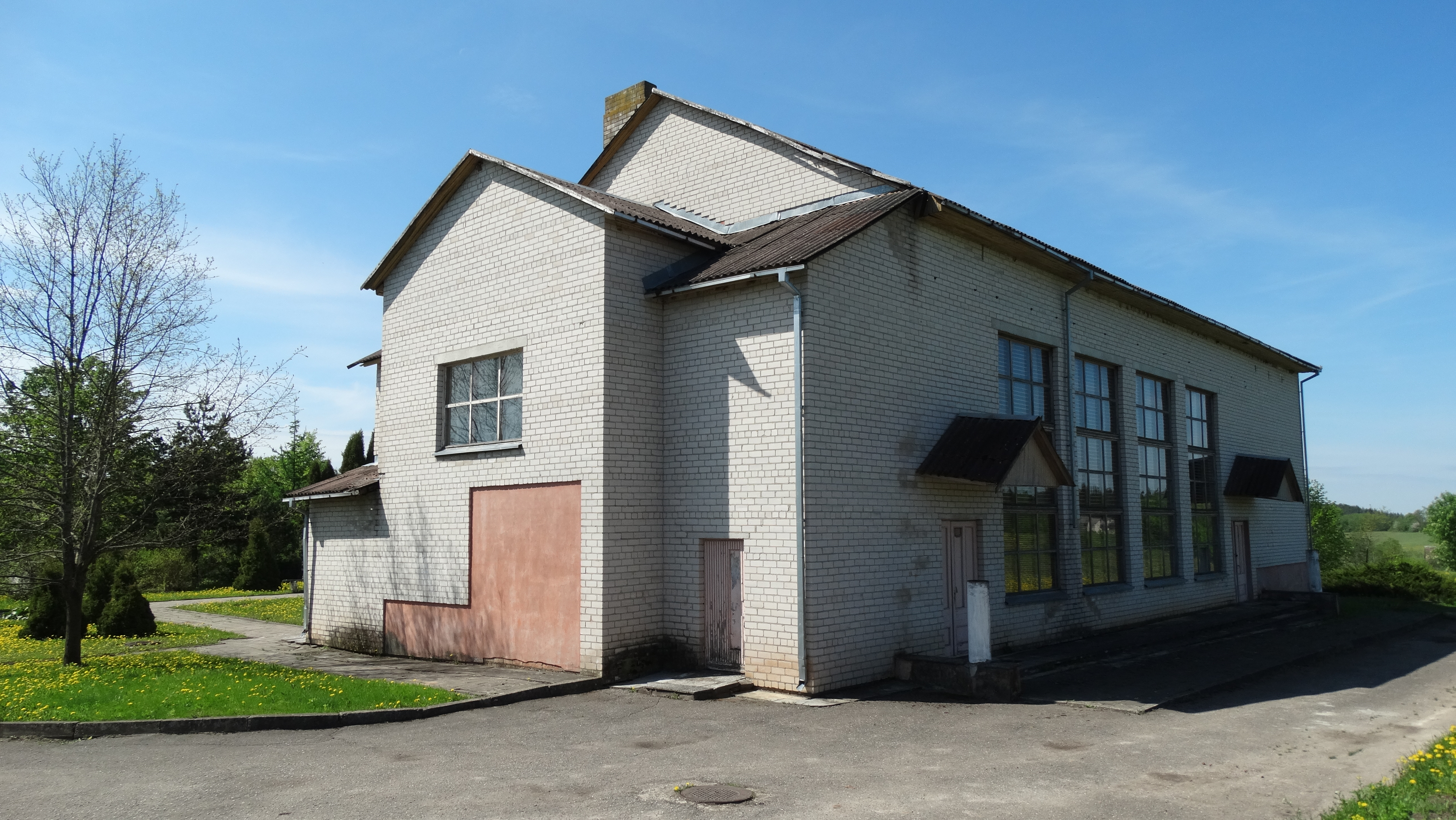 School, Skudutiškis, Molėtai district, Lithuania